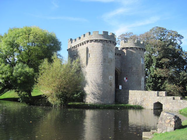 Whittington Castle